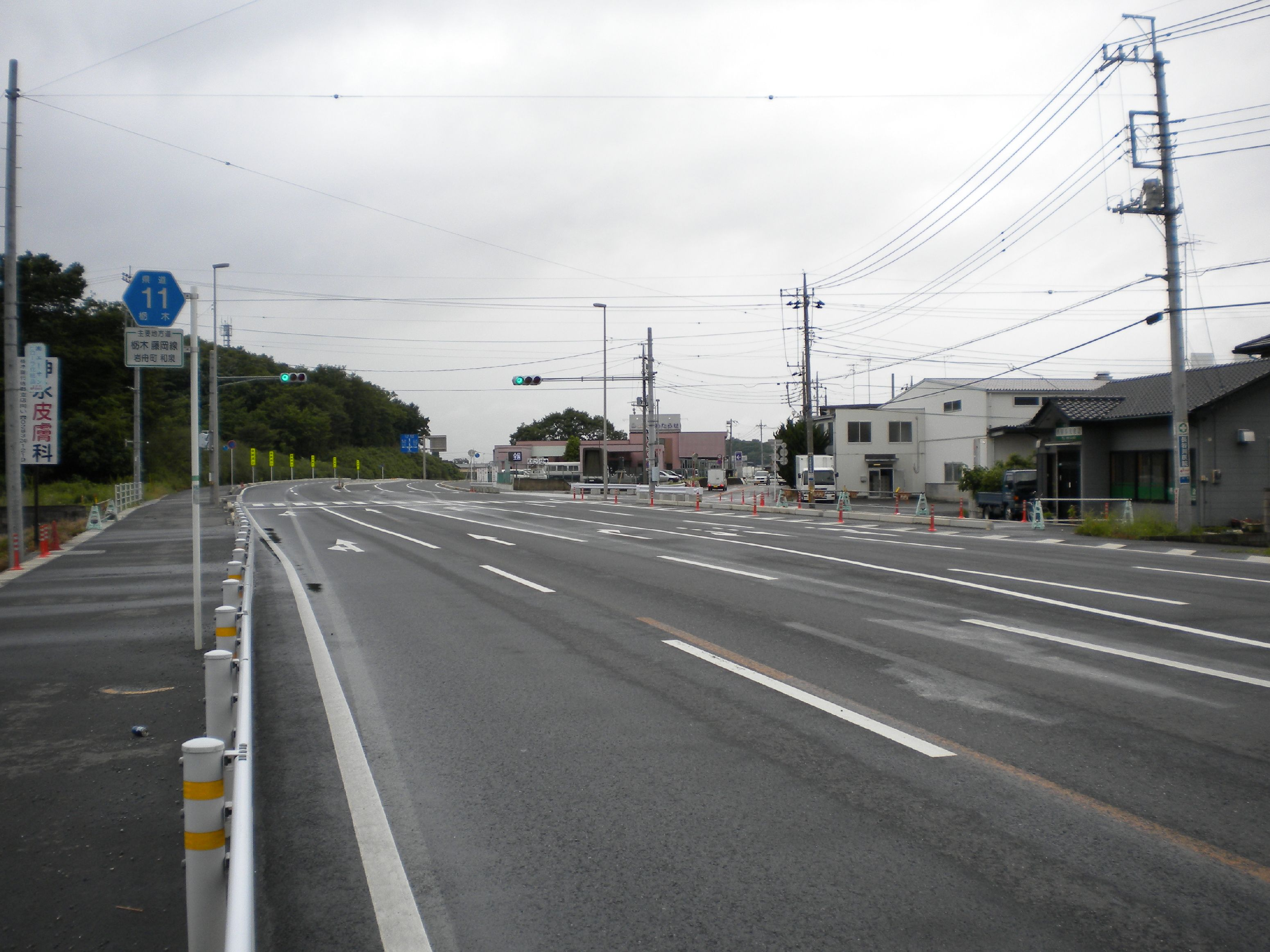 Tochigi Prefectural Road Route 11 in Iwafune Town